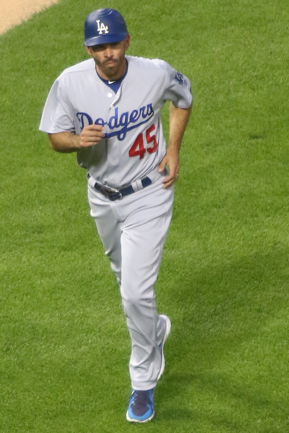 Chris Woodward, third base coach, for the 2017 Los Angeles Dodgers